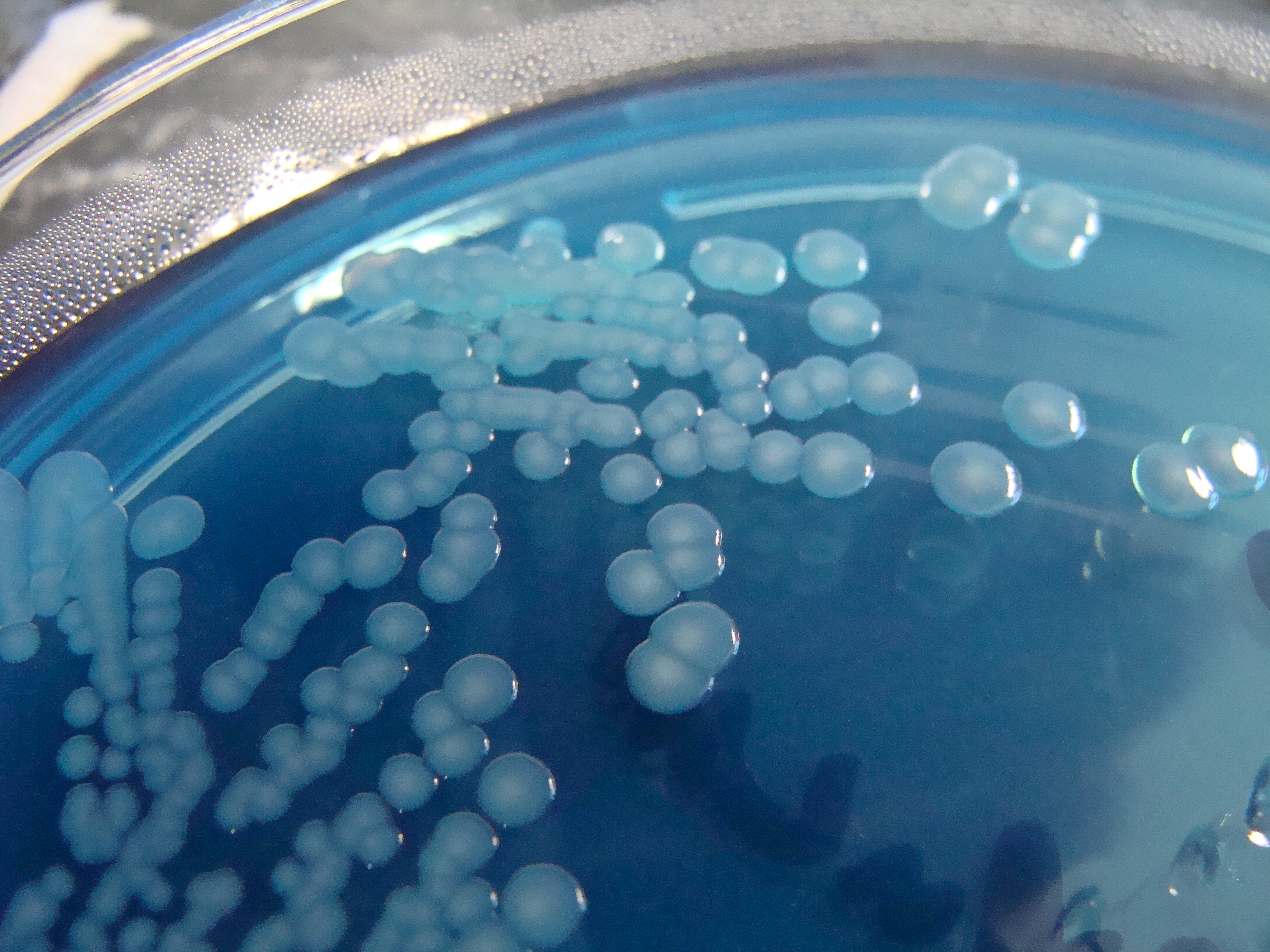 Aeromonas hydrophila isolated from blood culture from a patient with severe diarrhoea